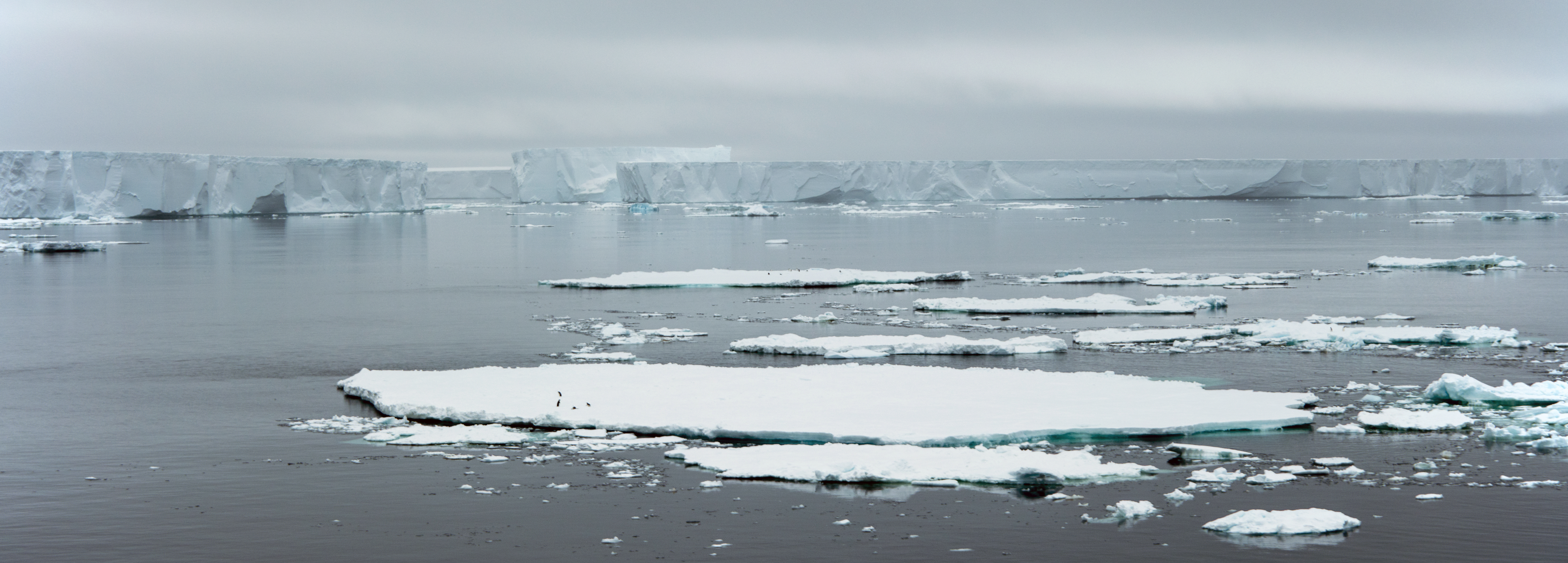 Sea ice and iceberge, Antarctic Sound, near Brown Bluff, Tabarin Peninsula